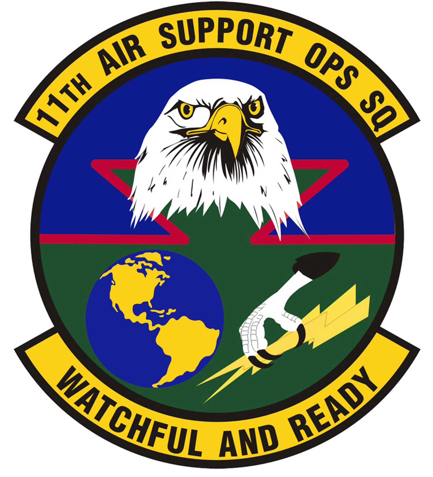 11th Air Support Operations Squadron logo